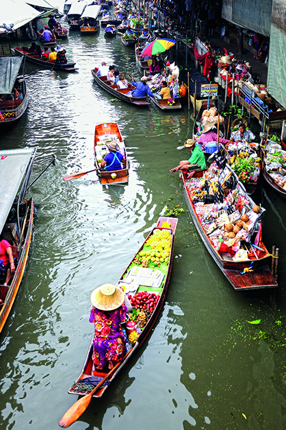 Damnoen Saduak Floating Market is the first floating market in Thailand located in Damnoen Saduak district. In 1866 King Rama IV had an initiation to create a canal to link the Tha Chin River and the Mae Klong River. This canal, with many branches, is 32 kilometres long. The name then was “Lat Plee Canal” or “ Lat Ratchaburi Canal”. This canal has helped people in Ratchaburi, Samut Songkhram, and Samut Sakhon to travel more conveniently, so the people call it “Damnoen Saduak Canal” (means travel conveniently). Damnoen Saduak Floating Market is a highly regarded attraction in the province. This market was a main trade centre for seasonal vegetables and fruits called “canal fruits” and Thai desserts which made of coconut and sugar palm. The locals sell their products at the crack of dawn until noon. Visitors can stroll or paddle along the canal to enjoy the market, the orchard and shrimp farms.